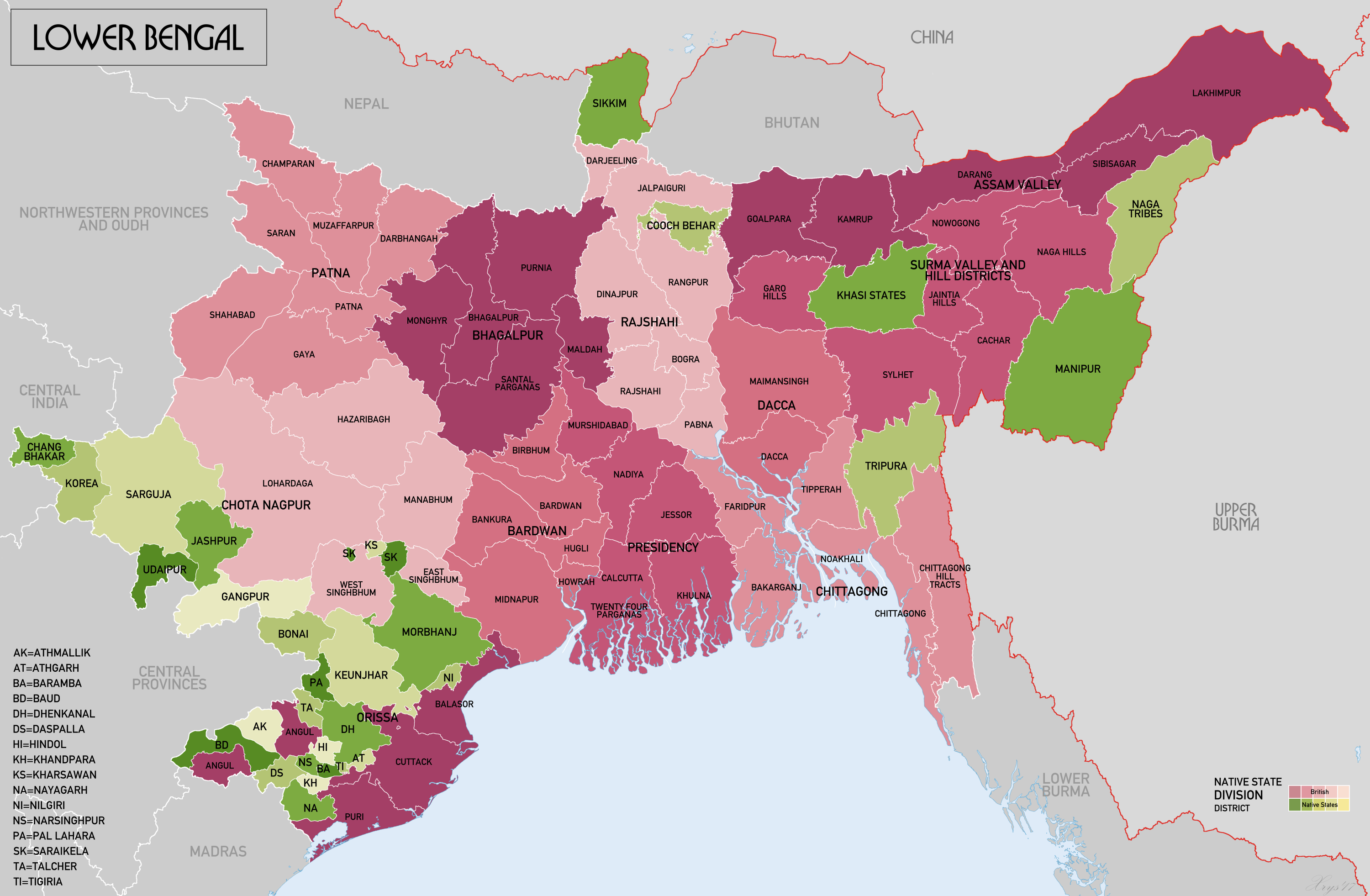 Map of Lower Bengal in 1870. Source data: Survey of India 1:253k (Perry-Castenada Map Library, Univ of Texas), India 1:1M, Imperial Gazetteer of India 1:4M (Digital South Asia Library, Univ of Chicago).